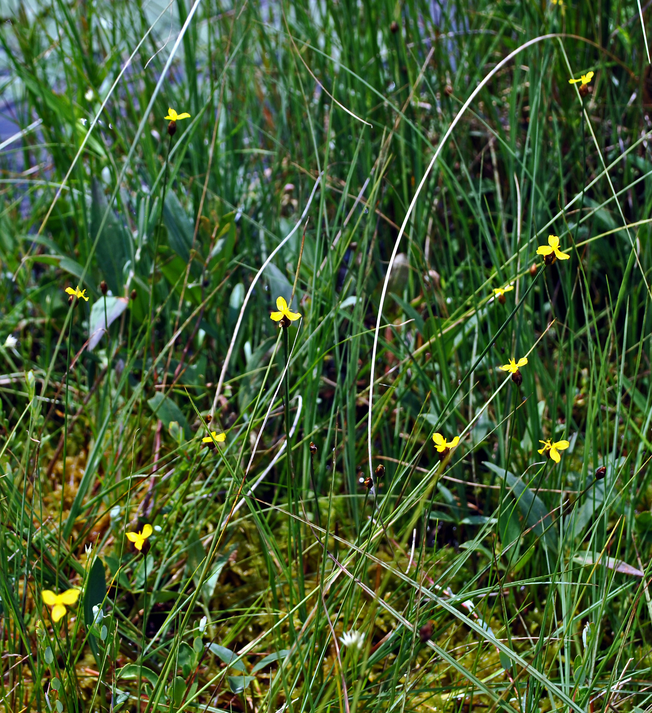 Bog Yellow-Eyed Grass (Xyris montana), Grandma Lake Wetlands State Natural Area, SNA #305, Florence County, Wisconsin, United States